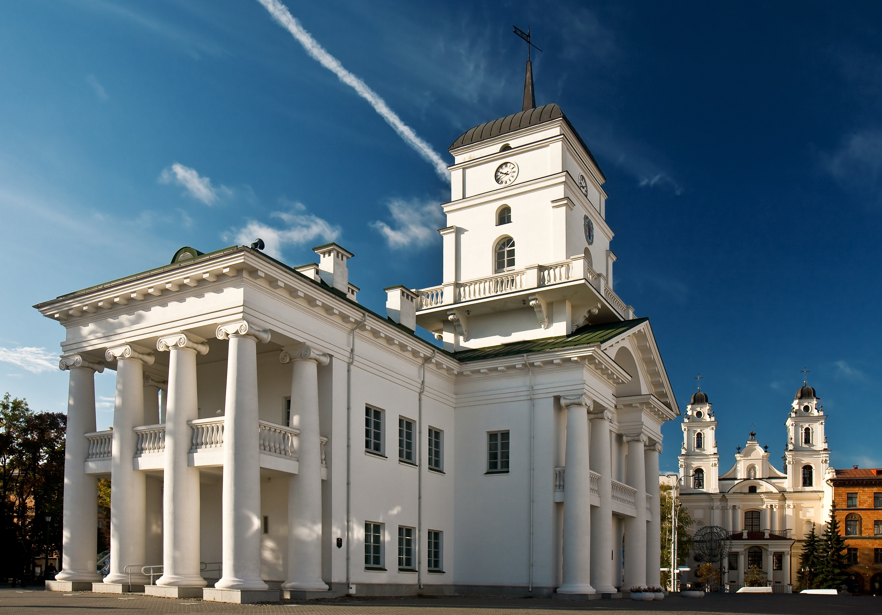 City hall in the Upper Town of Minsk, Belarus. Rebuilt in 2004. Cathedral of Saint Virgin Mary is in the background. 06.10.2009.